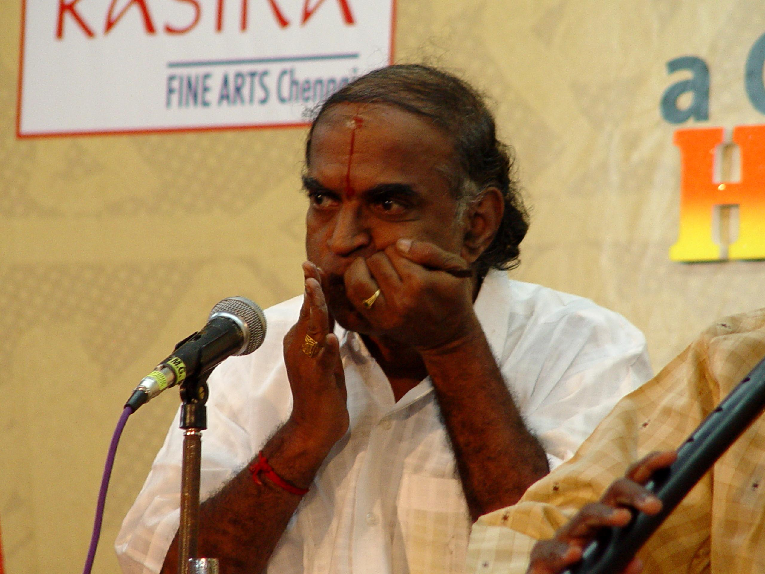 Photo of Srirangam Kannan playing morsing in a concert in december festival 2007.